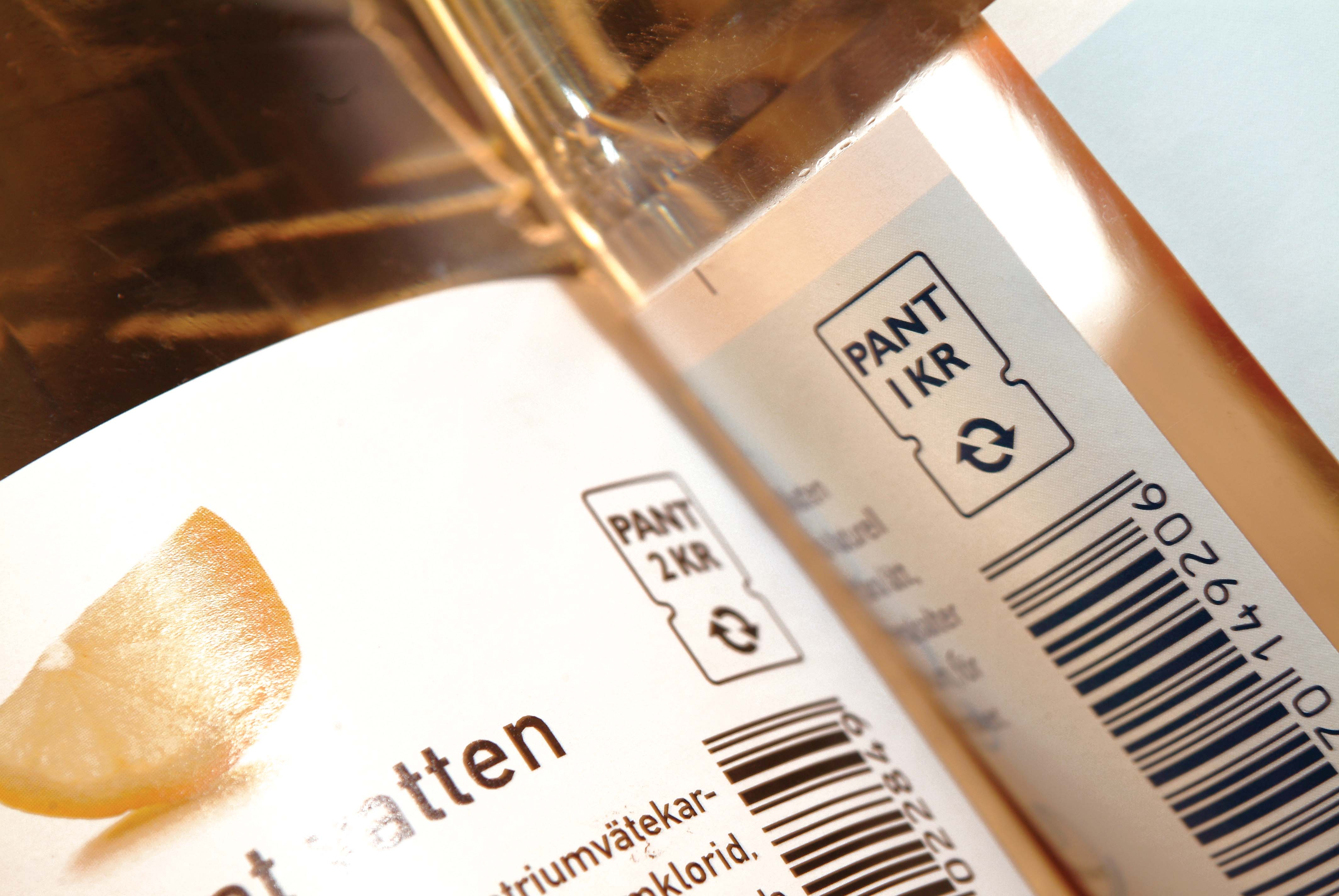 PET bottle